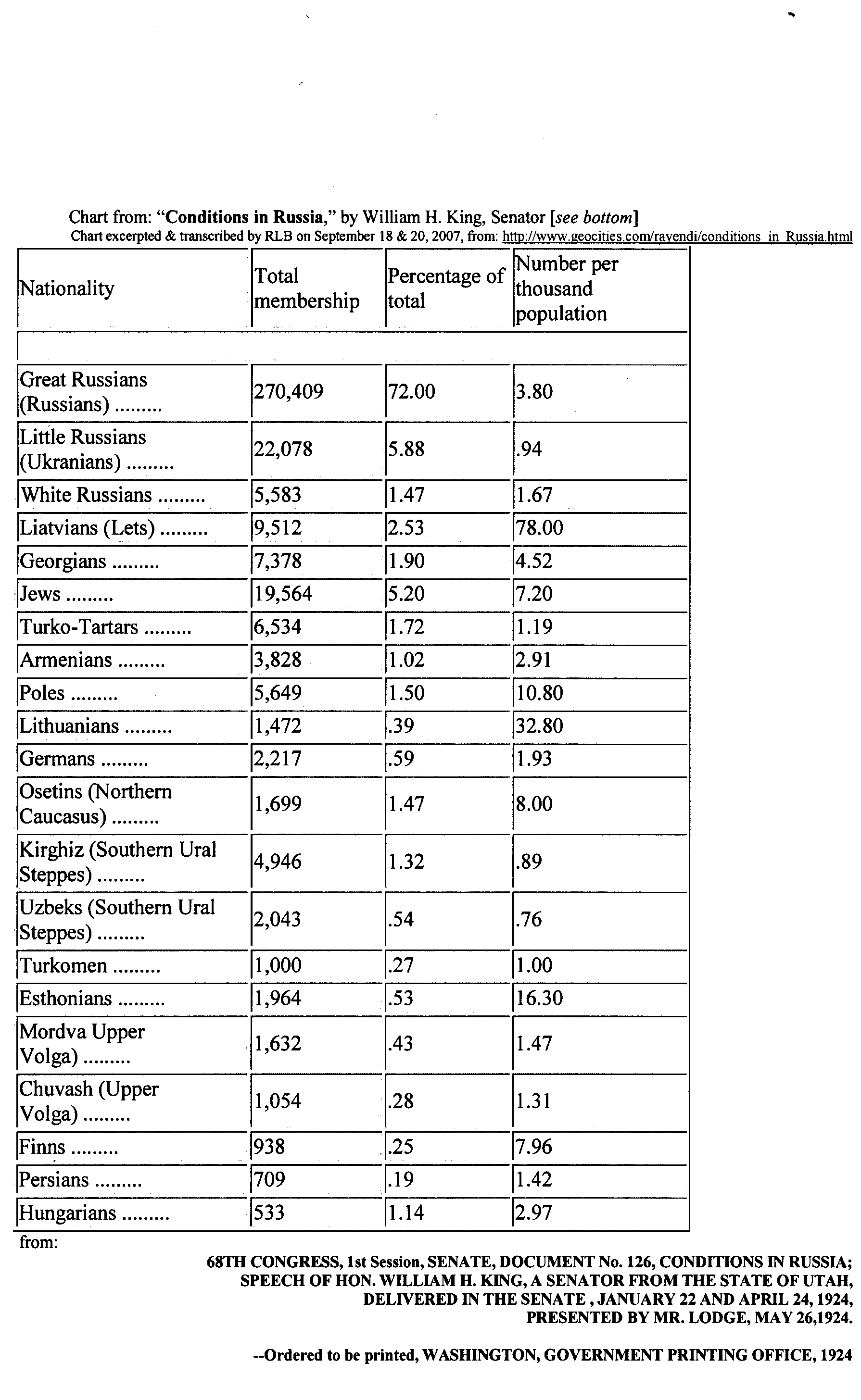 USA, Senate, Government Chart